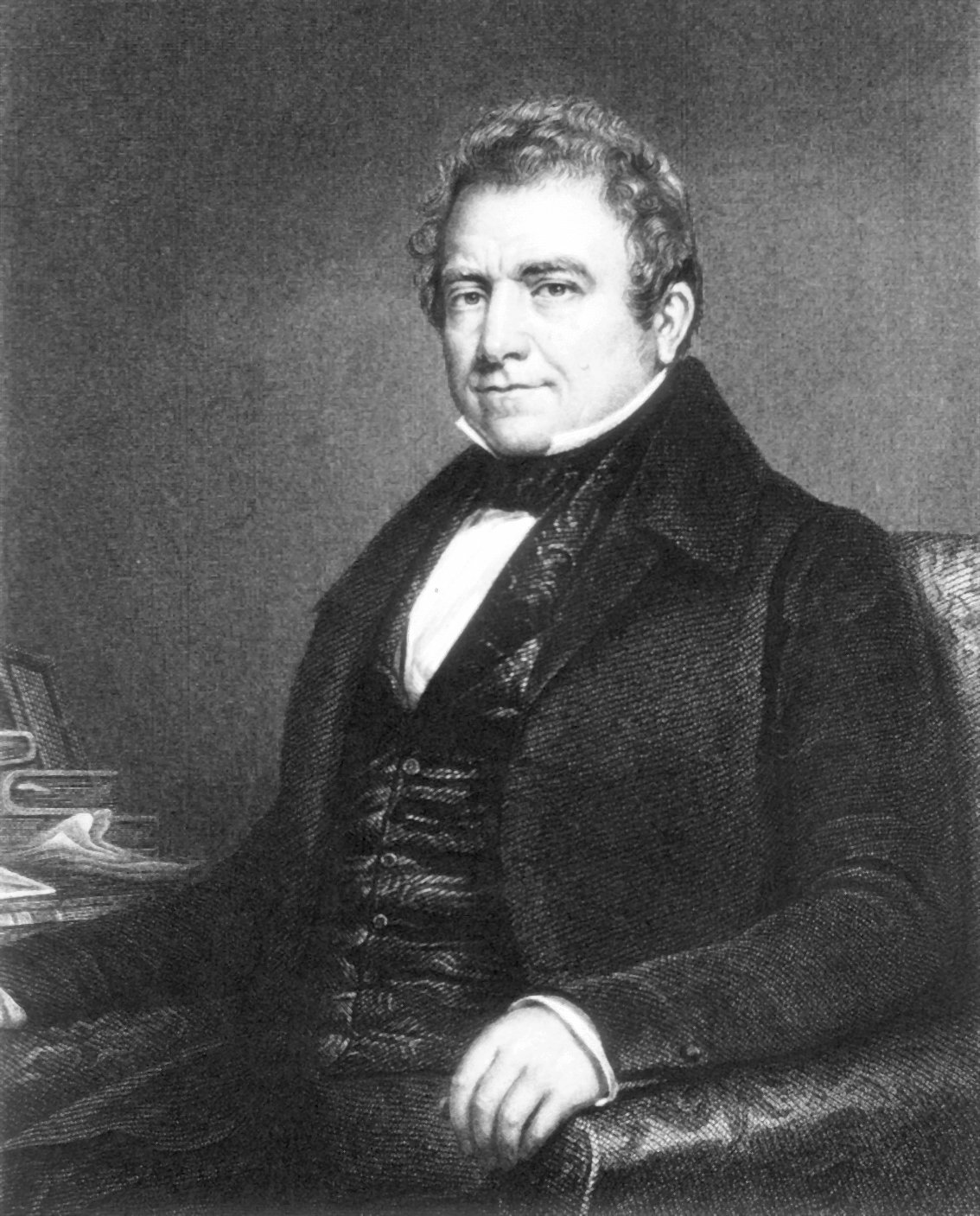 Joseph Hume